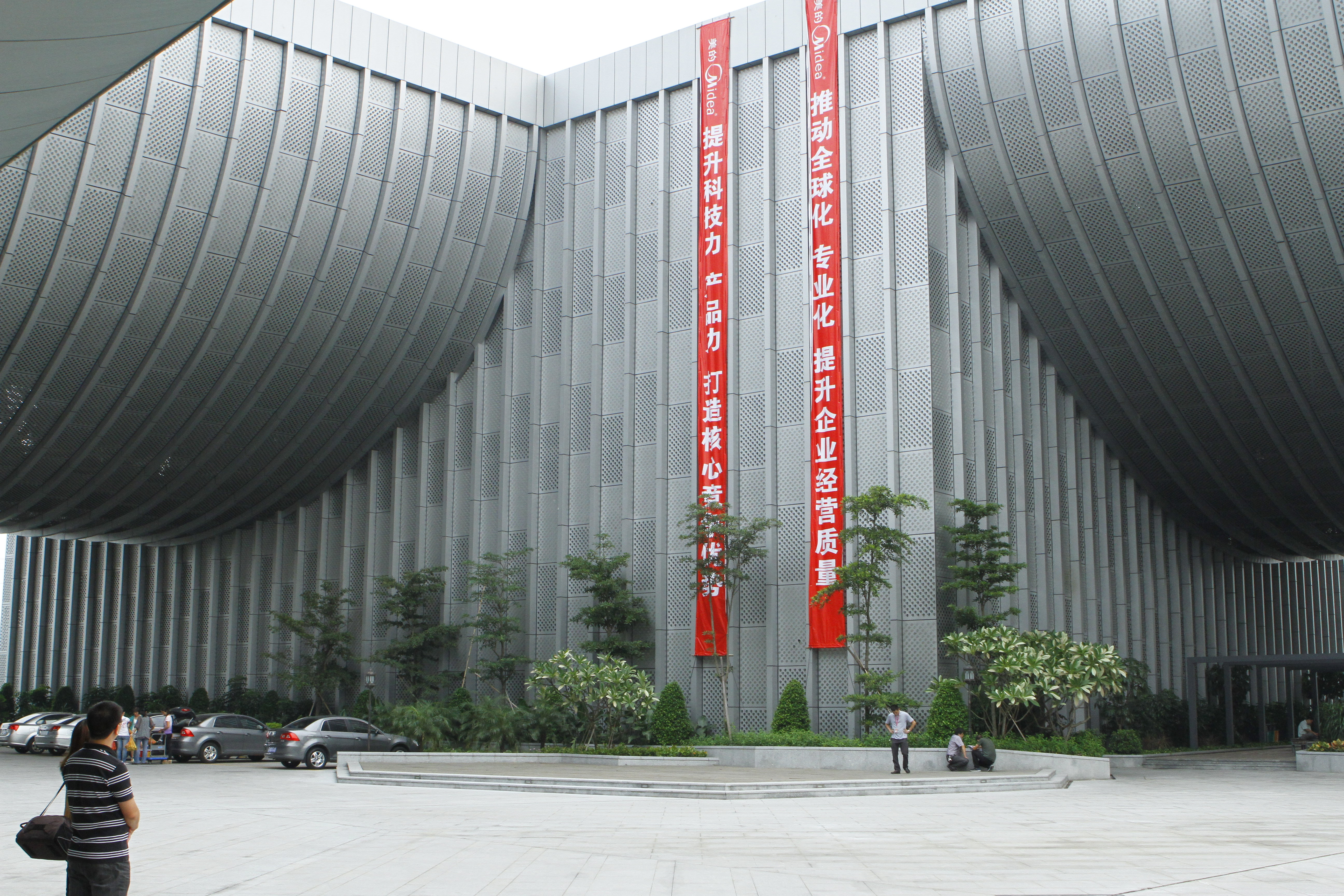 Courtyard of Midea's Research and Development Institute